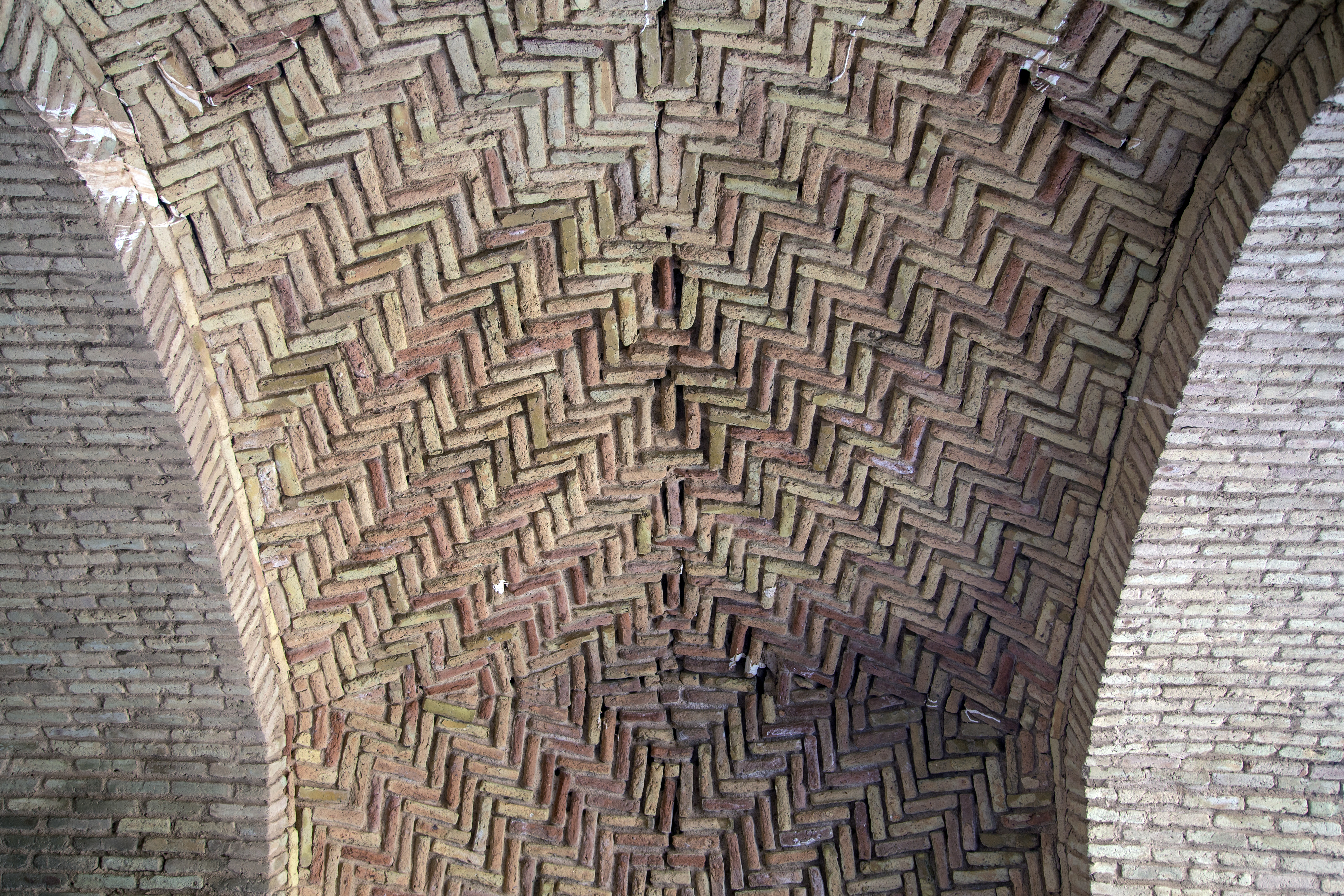 Deir-e Gachin Caravansarai is one of the greatest caravansarais of Iran which is located in the center of Kavir National Park. Its unique qualities is the reason it is called “Mother of Iranian Caravansarais”. It is located in the Central District of Qom County, 80 kilometers north-east of Qom (60 kilometers into Garmsar Freeway) and 35 kilometers south-west of Varamin. (Photo by: Mostafa Meraji, wiki loves monuments 2018)